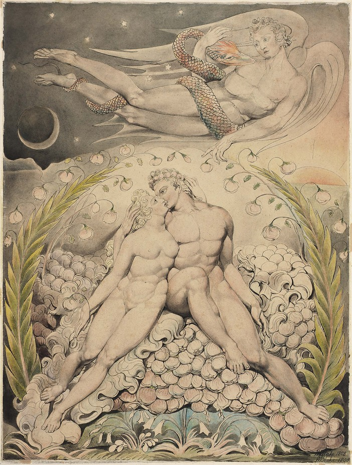 watercolor illustration to Paradise Lost by William Blake, the Butts set